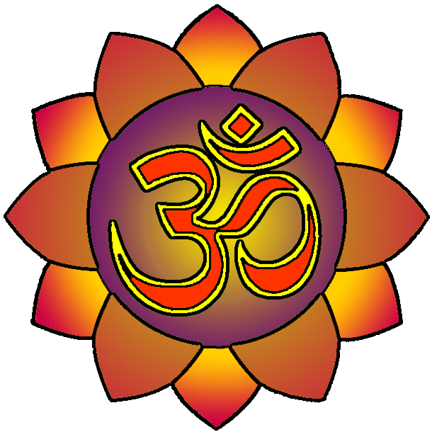 om in the twelve petaled anahata cakra